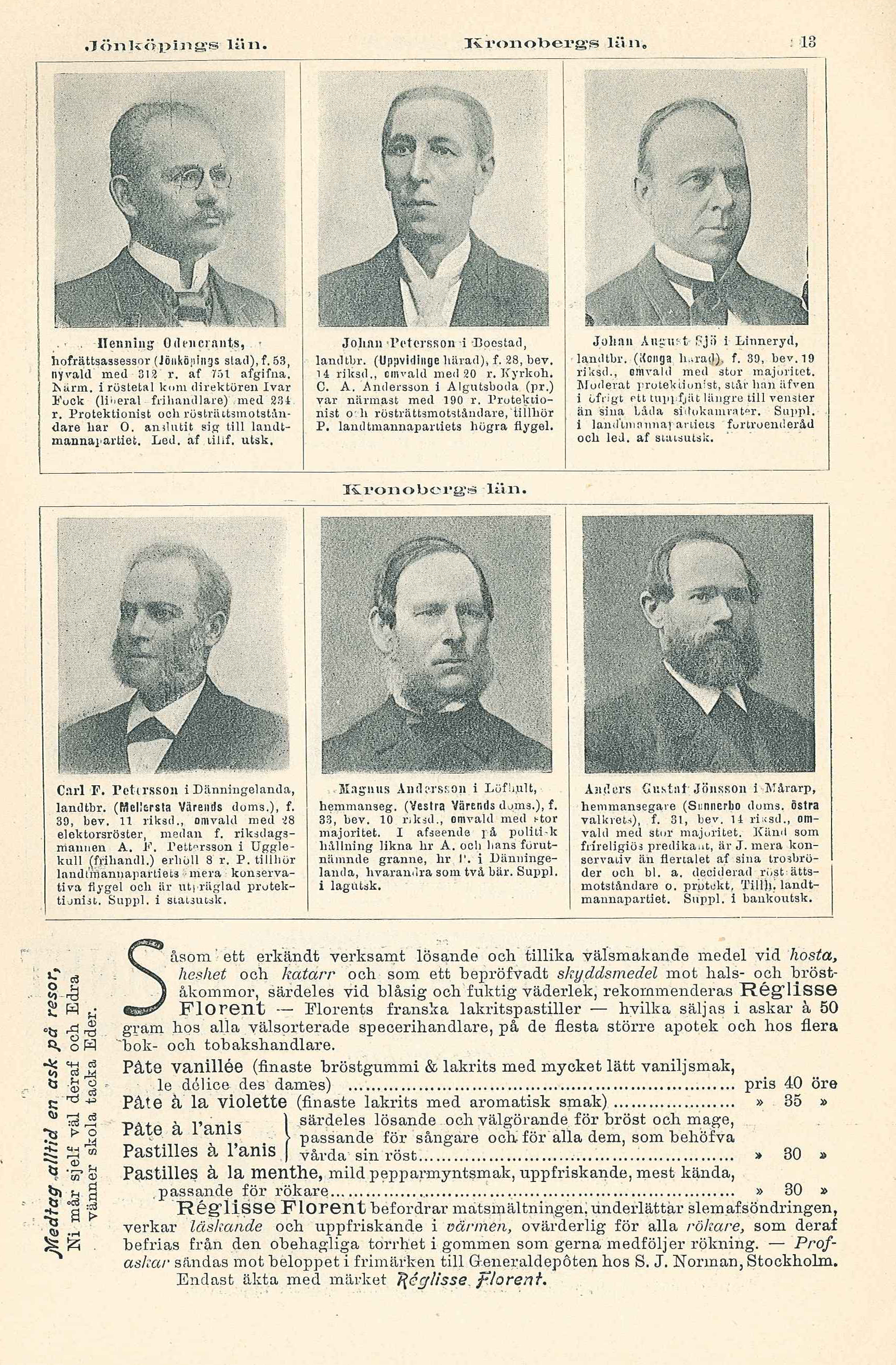 Page 13 of an album featuring portraits of all the members of the second chamber of the Swedish parliament (Sveriges riksdag) elected in 1897. This page featuring parts of the members representing the counties of Jönköping and Kronoberg.